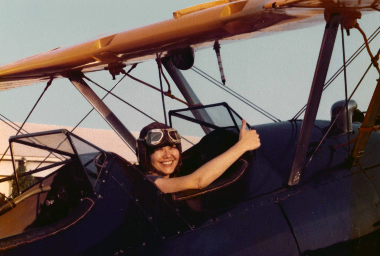 Big Apple Comix publisher Flo Steinberg in an airplane